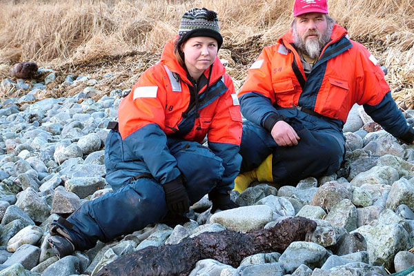 Abstract: This sea otter appears to have crawled onto the beach and died. U. S. Fish and Wildlife Service Response to Grounding/Oil Spill off Unalaska Background Information The U.S. Fish and Wildlife Service is responding to the grounding of the 738-foot cargo vessel M/V Selendang Ayu, off Unalaska Island in the Aleutian Islands. The vessel, carrying approximately 483,000 gallons of heavy bunker fuel oil and 21,000 gallons of diesel fuel, ran aground and broke apart on Wednesday, December 8. Six of the vessel’s crew members were lost in the rescue effort. The vessel is located between Skan Bay and Spray Cape (53° 38’ 04”, 167° 07’ 30”) on the western shore of Unalaska. The area is accessible only by water or air. The lands in the spill area are managed as part of the Alaska Maritime National Wildlife Refuge. The U.S. Fish and Wildlife Service Regional Spill Response Coordinator is directing the Service response from Dutch Harbor, Alaska. The Service response efforts are being conducted within the Unified Incident Command Structure, and Service biologists are directing wildlife response activities within this joint command.